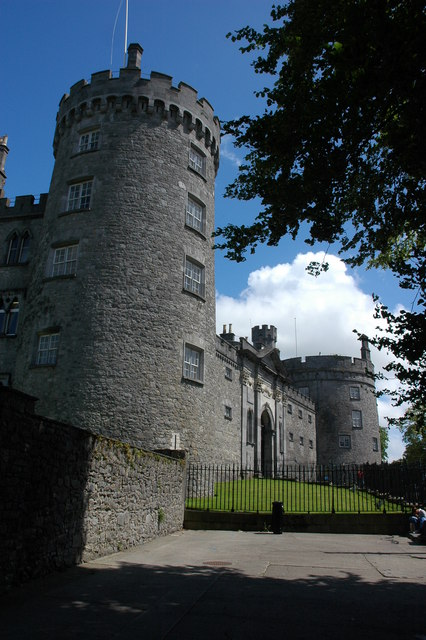 Kilkenny Castle Dating back to the 1190s, Kilkenny Castle was occupied up until 1935. The Butler family lived in the castle from the late 14th century and their descendants donated it to the nation in 1967.